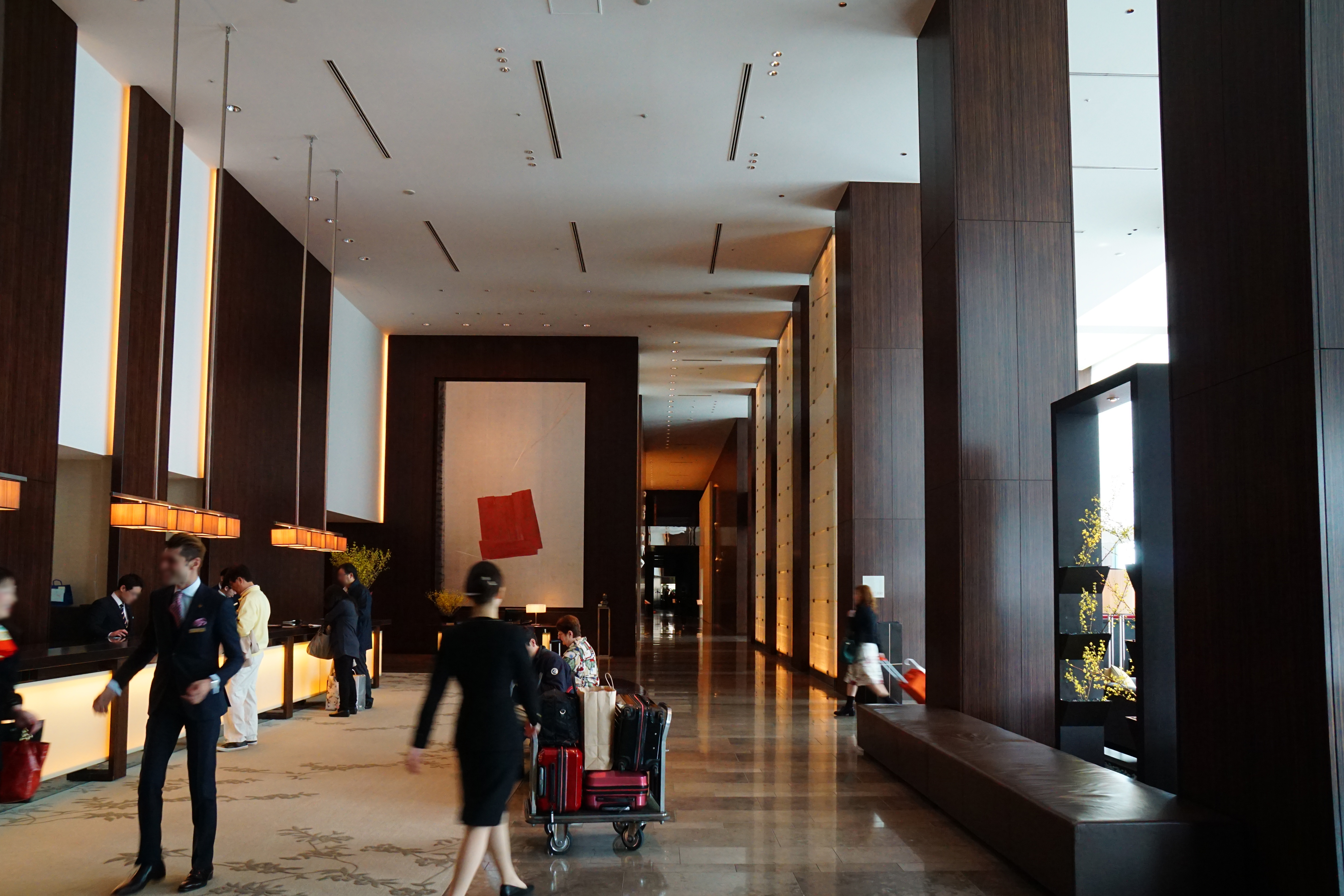 At Conrad Tokyo, Tokyo, Japan